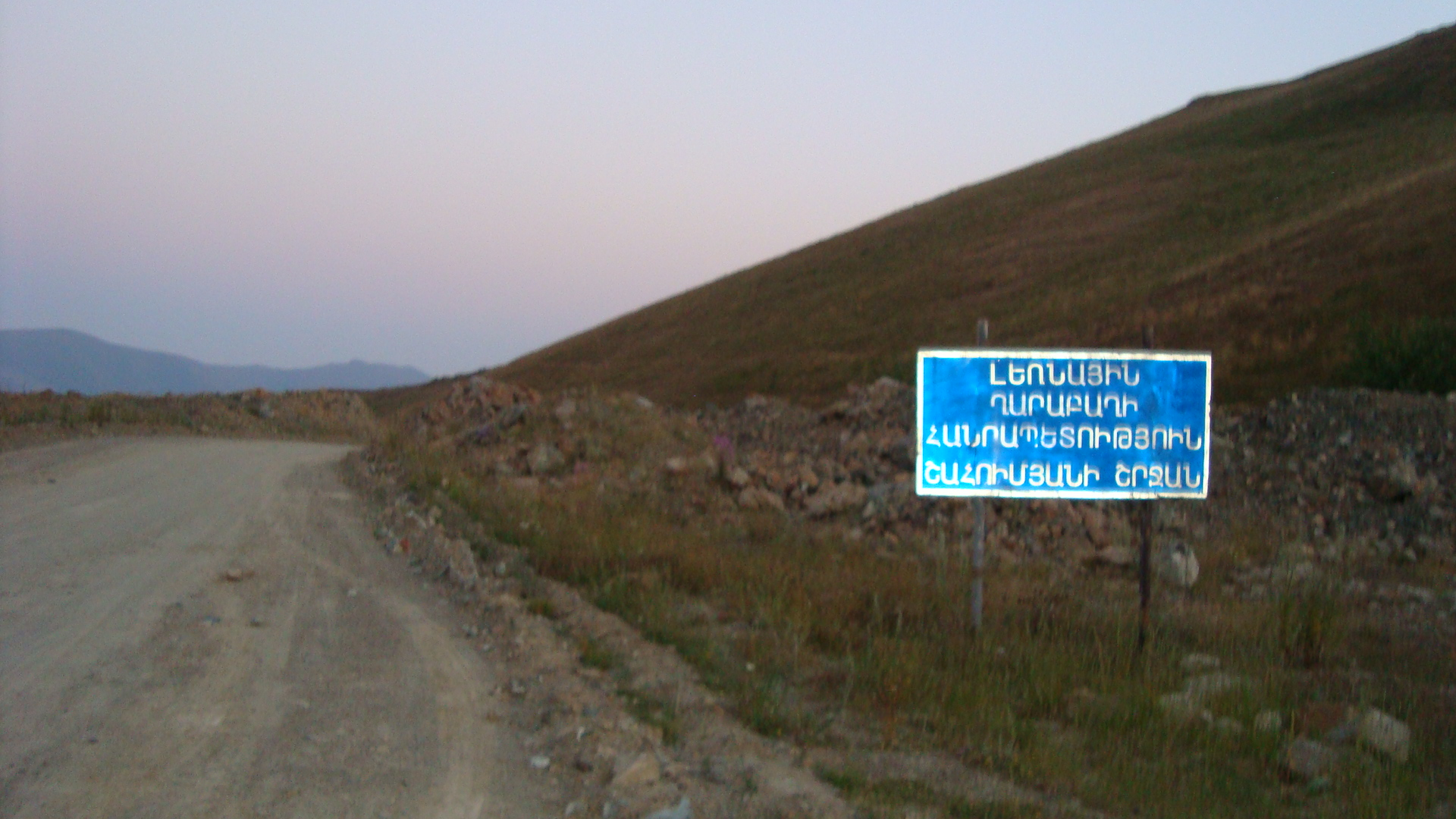 An invitation sign of entrance to Artsakh - Republic of Mountainous Karabakh.